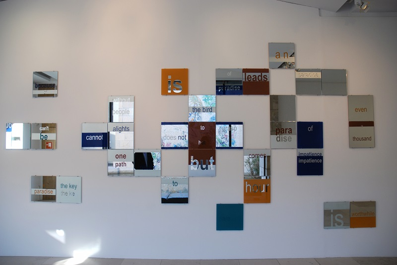 exhibition view